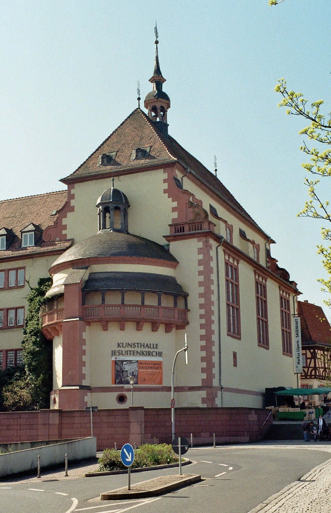 Jesuitenkirche church building in Aschaffenburg, Germany, today used as a municipal art gallery Jesuitenkirche in Aschaffenburg, Bayern, heute genutzt als Städtische Kunstgalerie